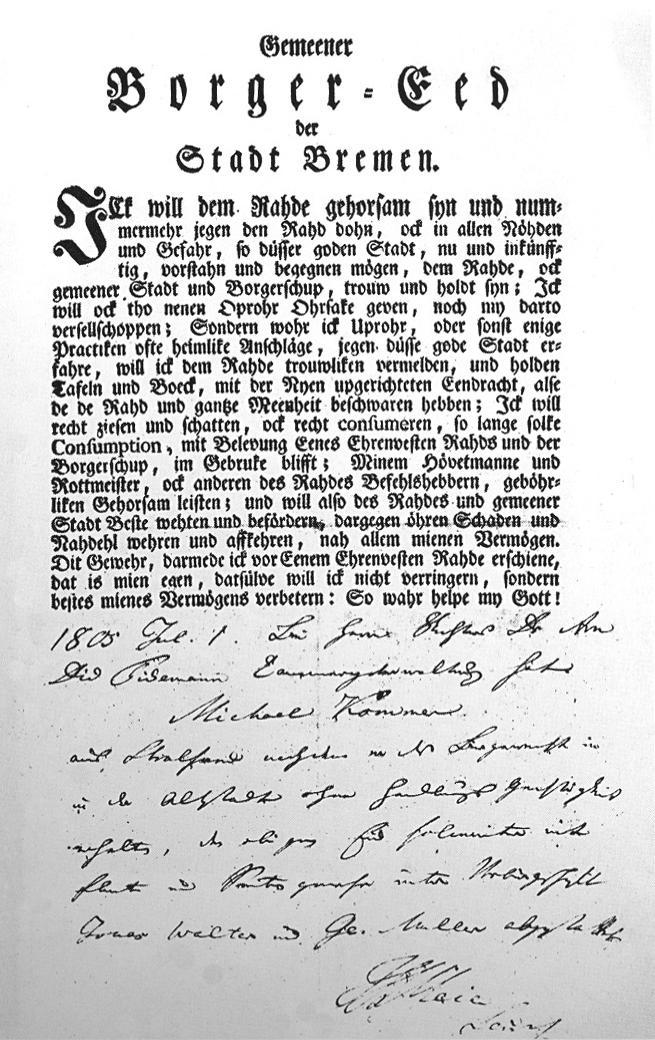 The Bremer Bürgereid (the “citizens’ oath of Bremen”) from the year 1805.